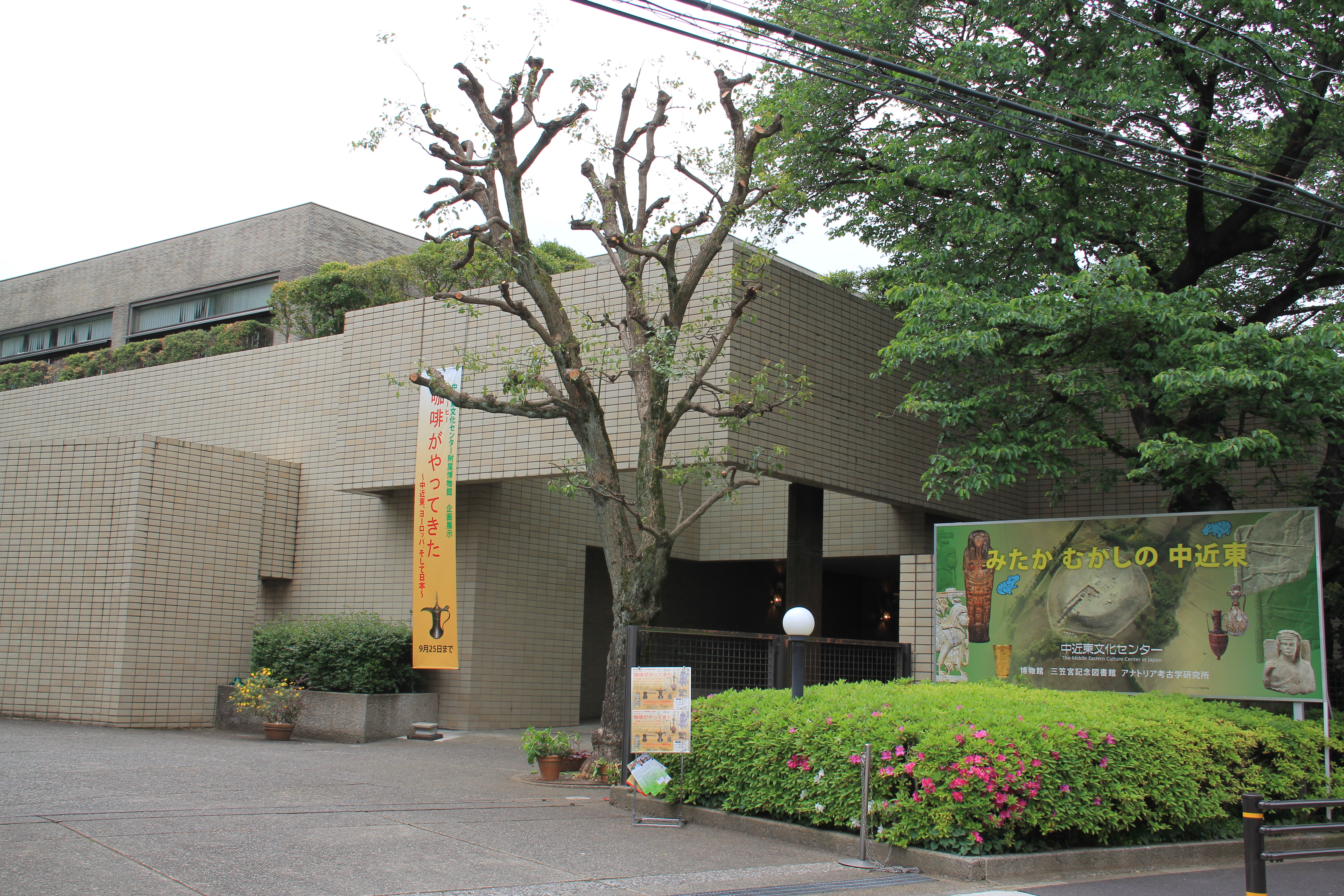 The_Middle_eastern_culture_center_in_Japan, in Tokyo